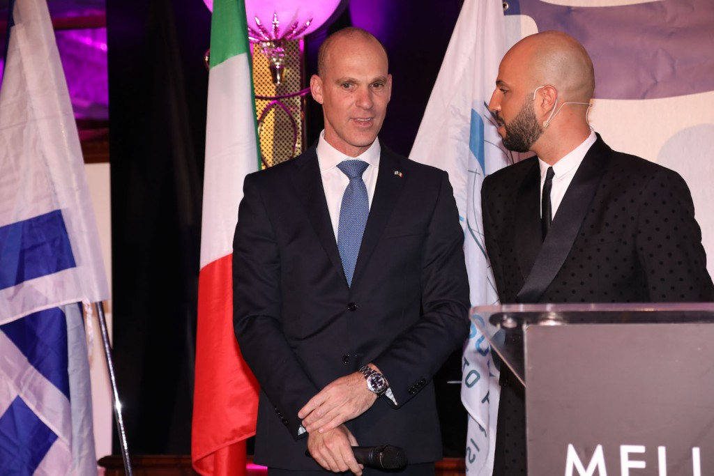 Keren Haysod